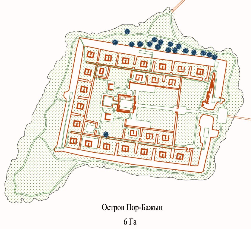 Plan published in 1963 by S.I. Vajnstejn, updated for Por-Bajin Fortress Foundation